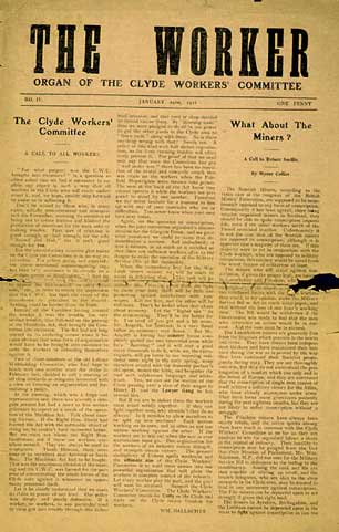 Front page of the January 1916 edition of The Worker, newspaper of the Clyde Workers' Committee. This edition contained the article by John Maclean entitled "Should the workers arm?"